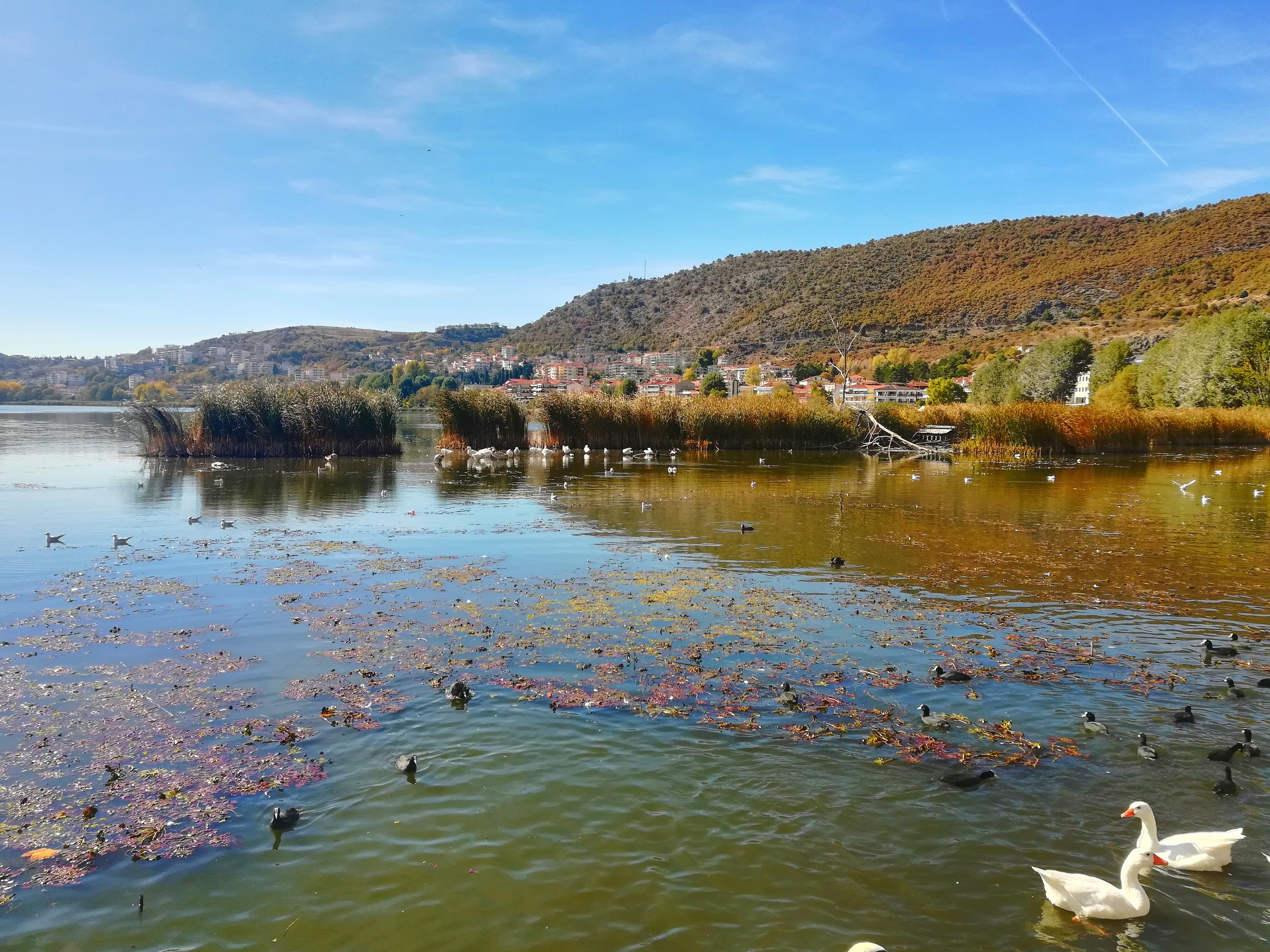 This is a photography of Natura 2000 protected area with ID GR1320001